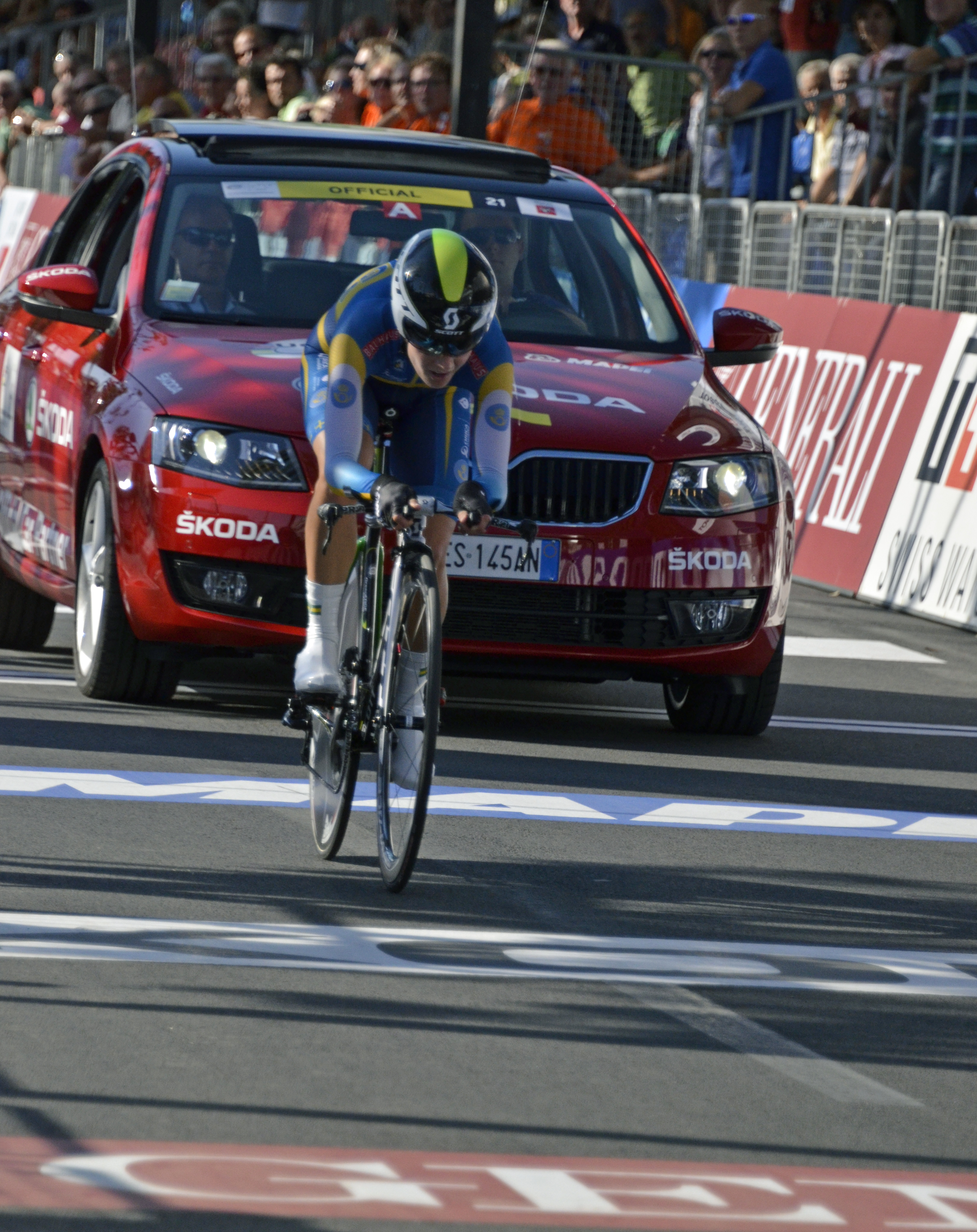 Emma Johansson of Sweden during the Women's time trial at the UCI Road World Championships in Tuscany, Italy.